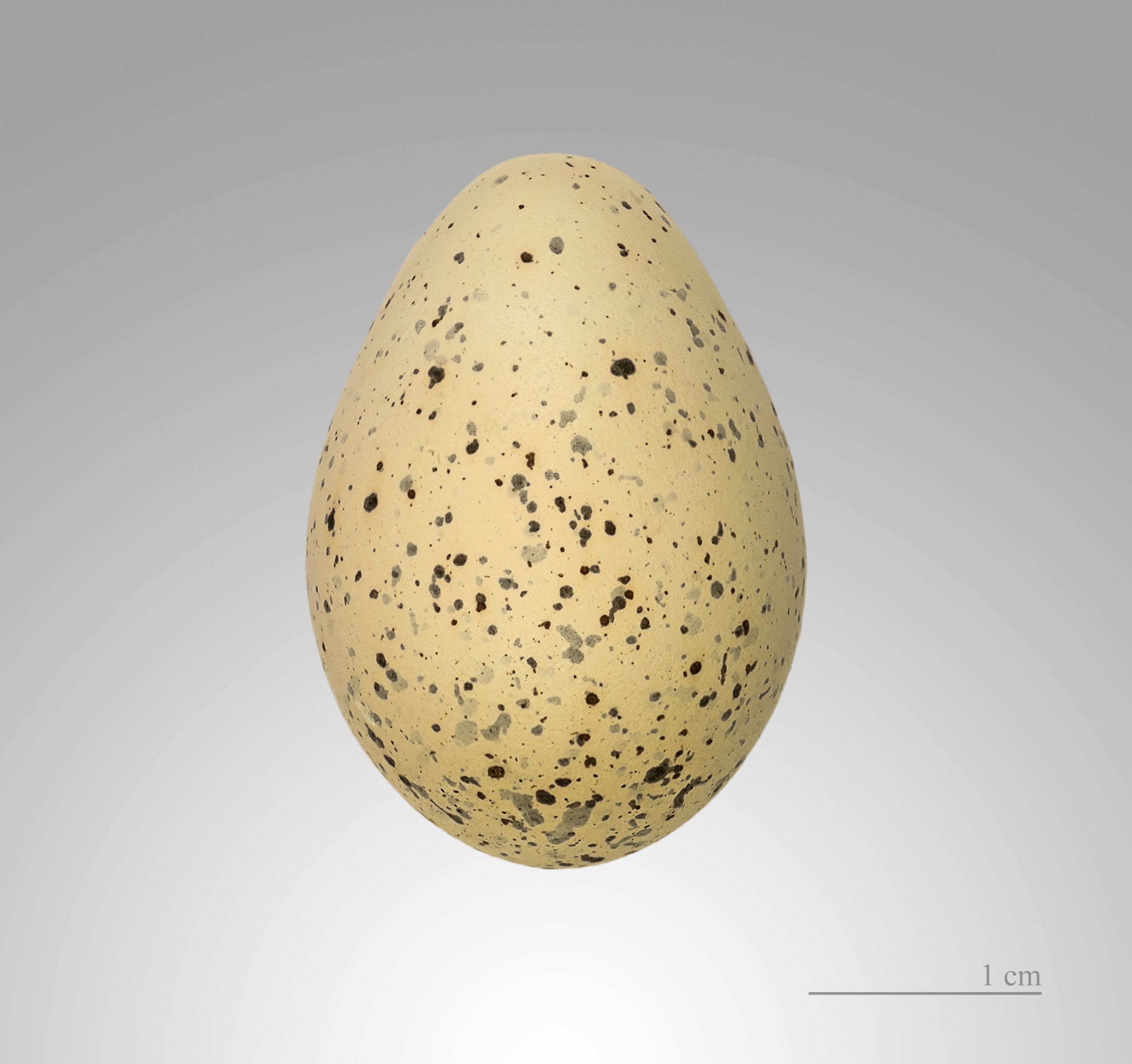 Egg of Little Ringed Plover. Collection of Jacques Perrin de Brichambaut.